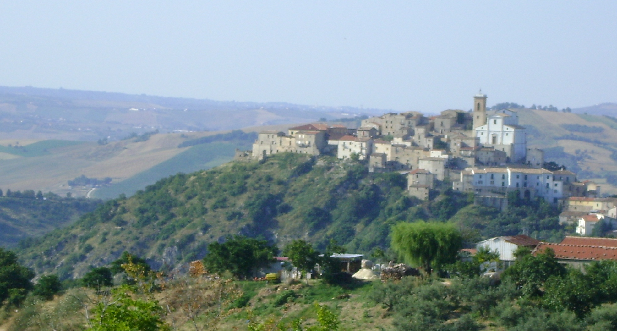 View of Altino, province of Chieti, Abruzzo, Italy